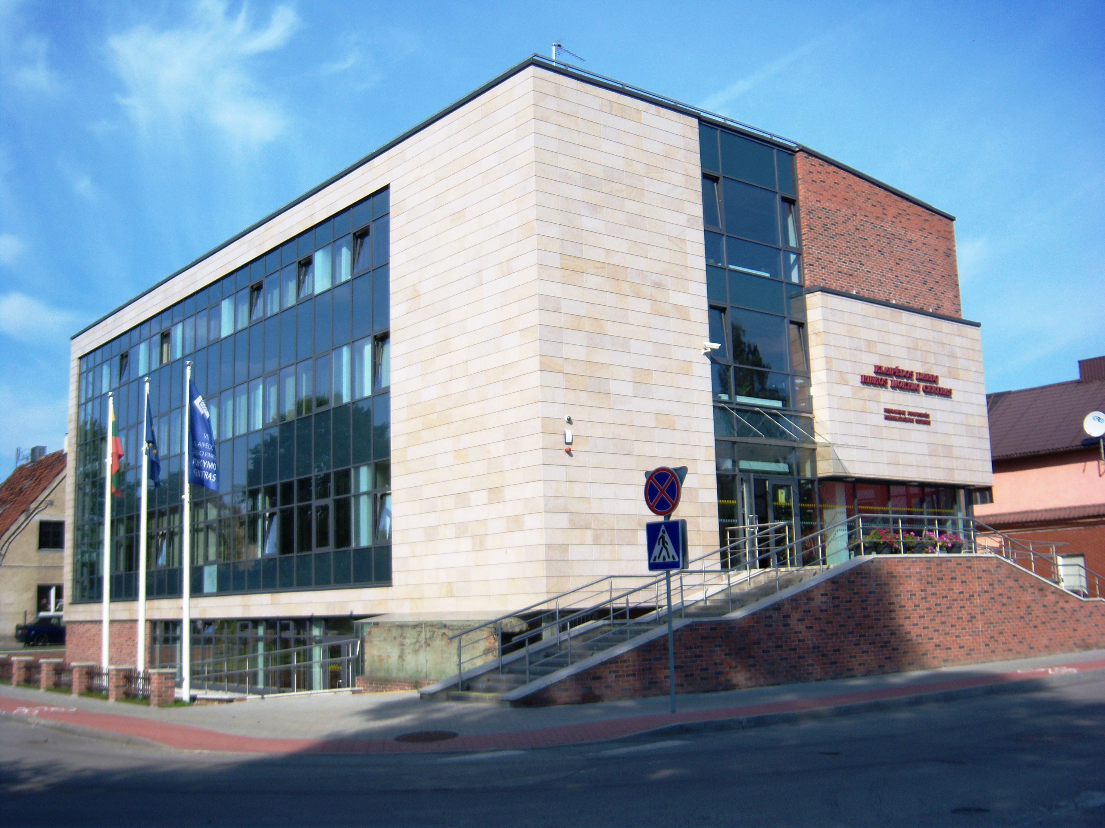 Labour Market Training Centre, Public Institution, Klaipėda, Lithuania